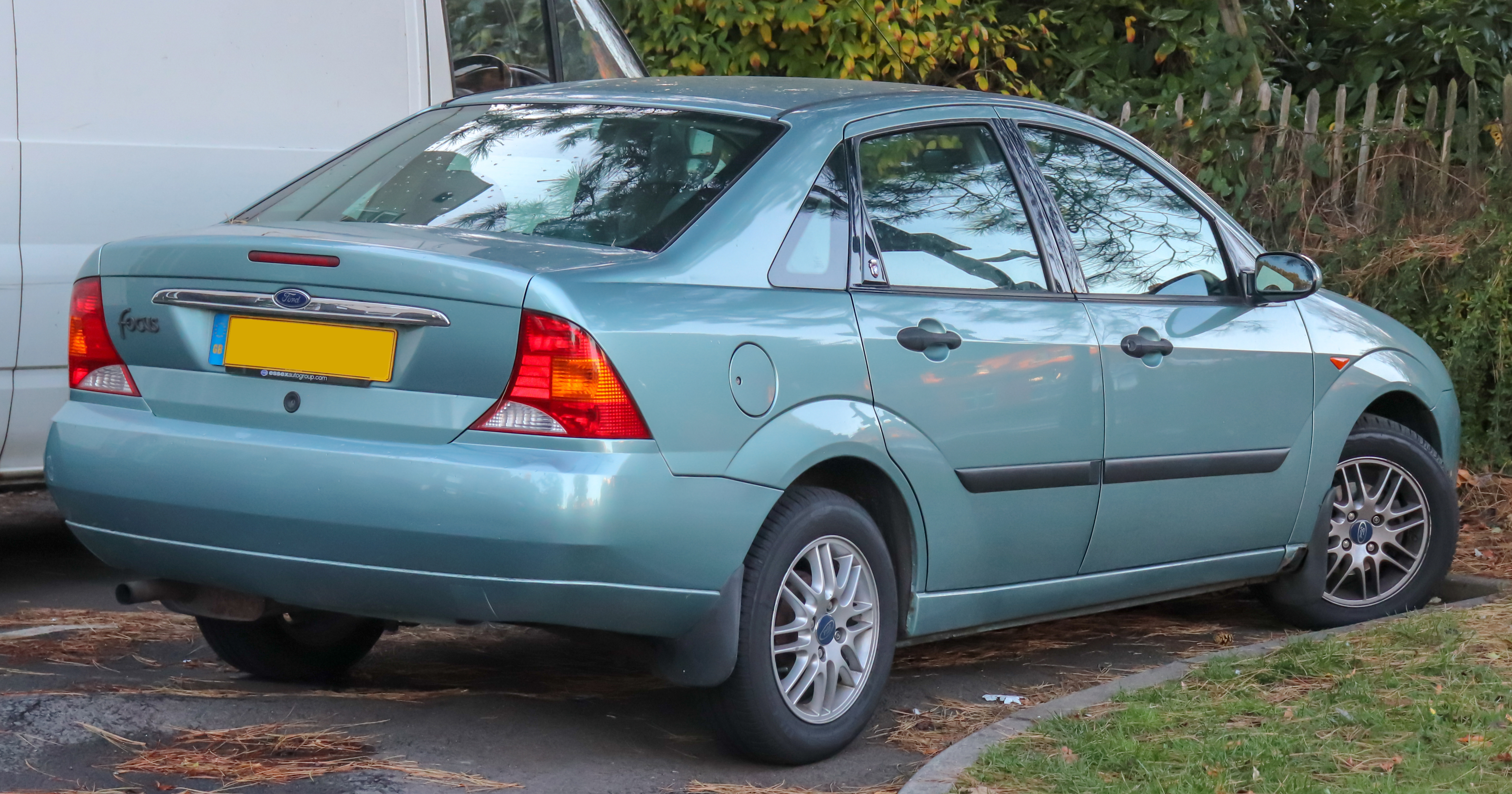 2000 Ford Focus Ghia Automatic 1.6 Taken in Leamington Spa